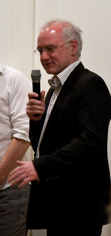 Helmut Dönnhoff at a wine dinner in Sydney, Australia.